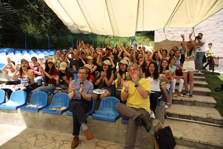 School holidays (also referred to as vacations, breaks, and recess) are the periods during which schools are closed or no classes are held.